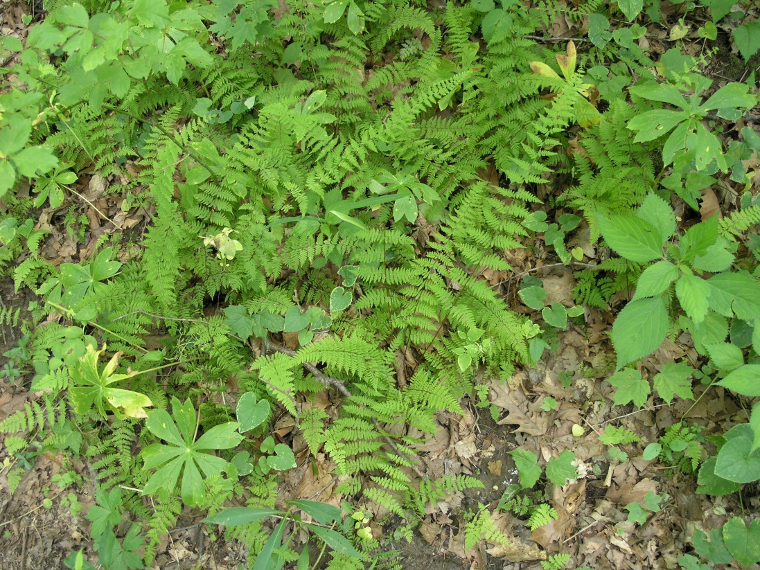 Cystopteris bulbifera in Shades State Park, Indiana.